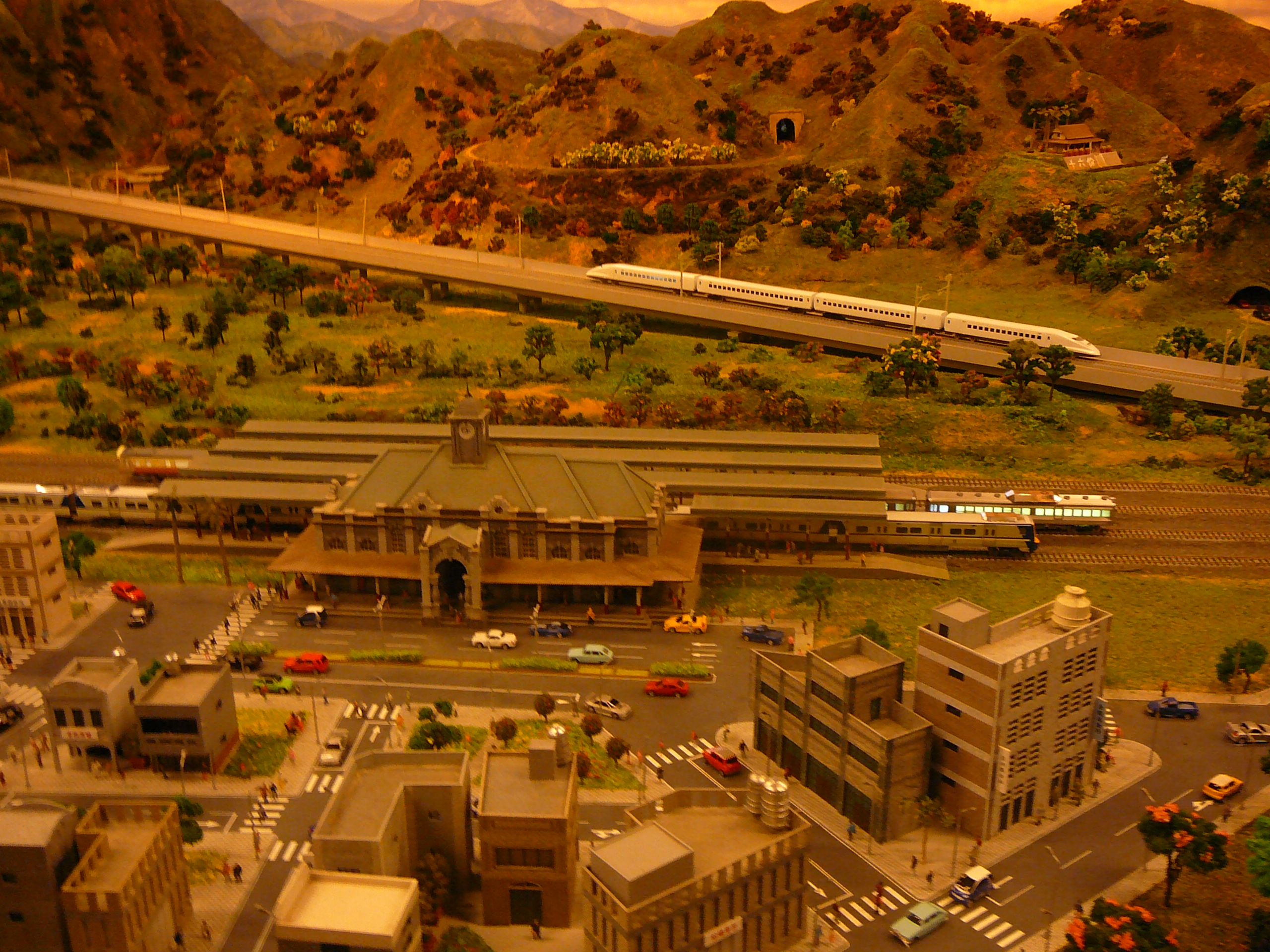 Hamasen Museum of Taiwan Railway HO scale layout, in Pier-2 Art Center, Kaohsiung